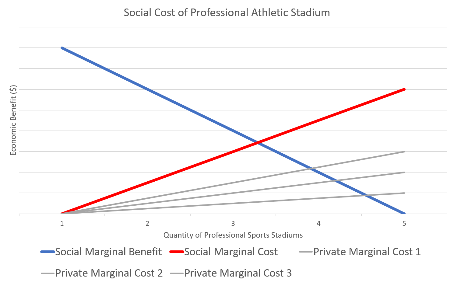 graph of smc